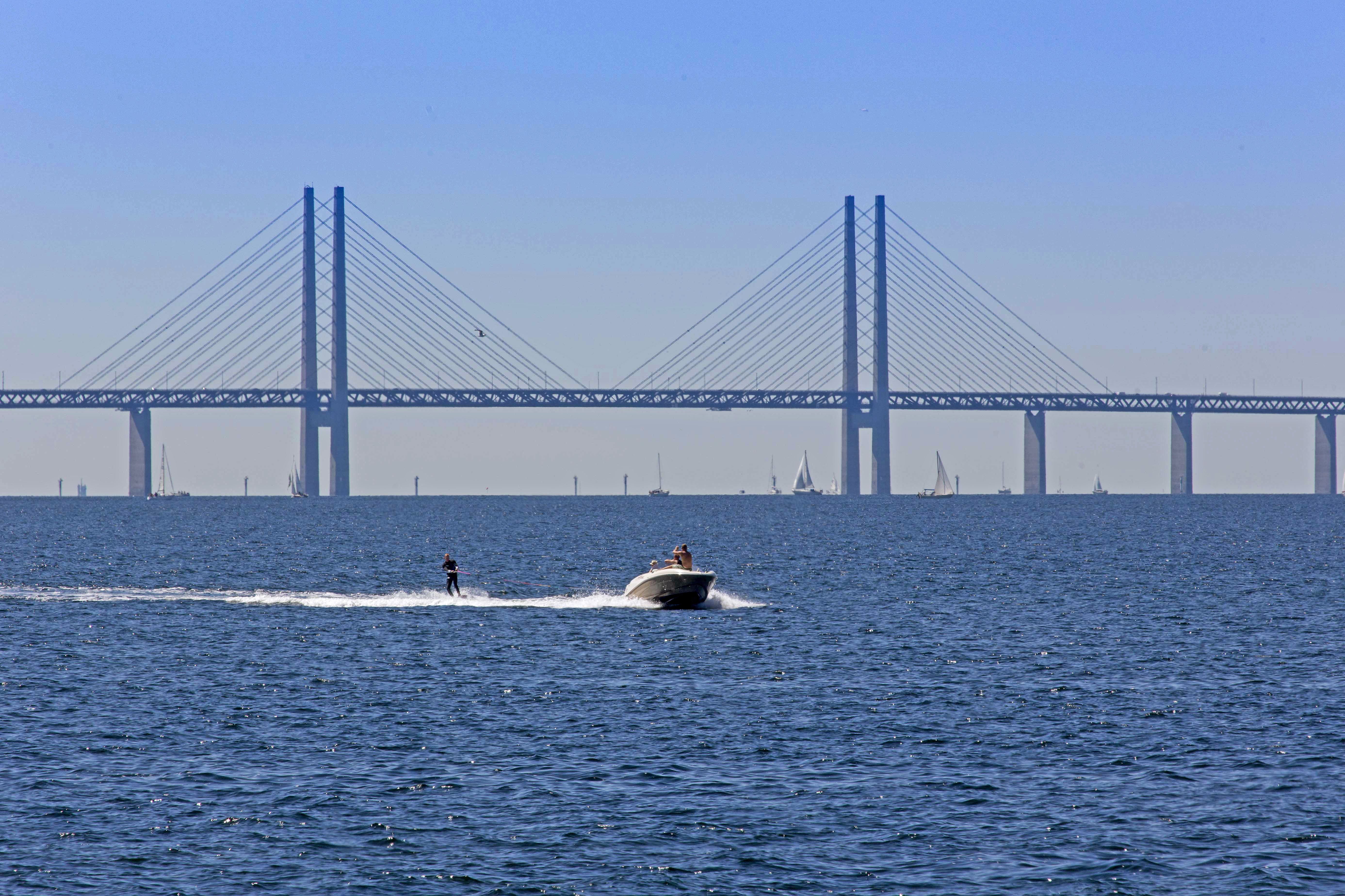 The Oresund Bridge, Denmarck